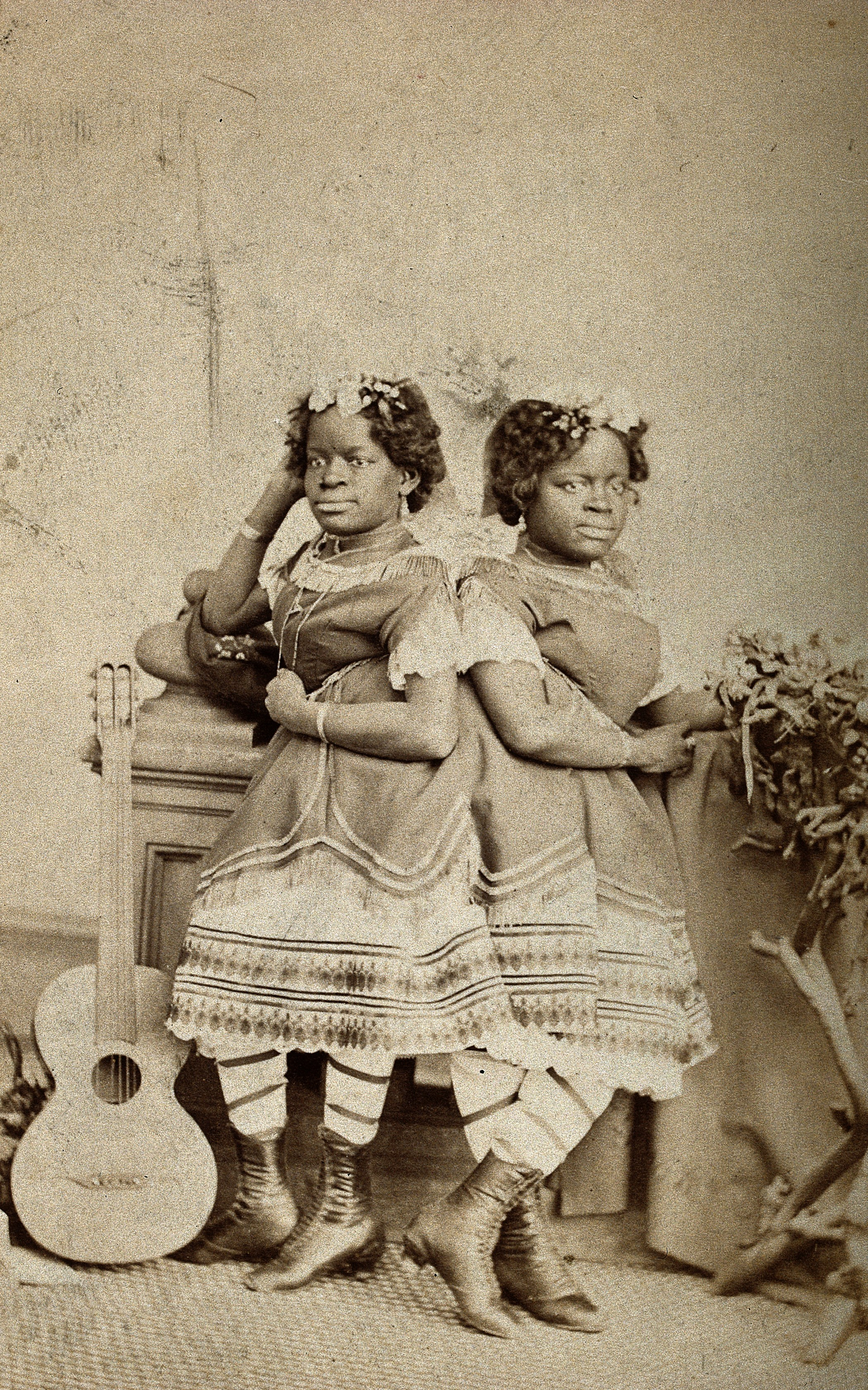 The Millie-Christine sisters, conjoined twins, standing. Photograph, c. 1871. Iconographic Collections